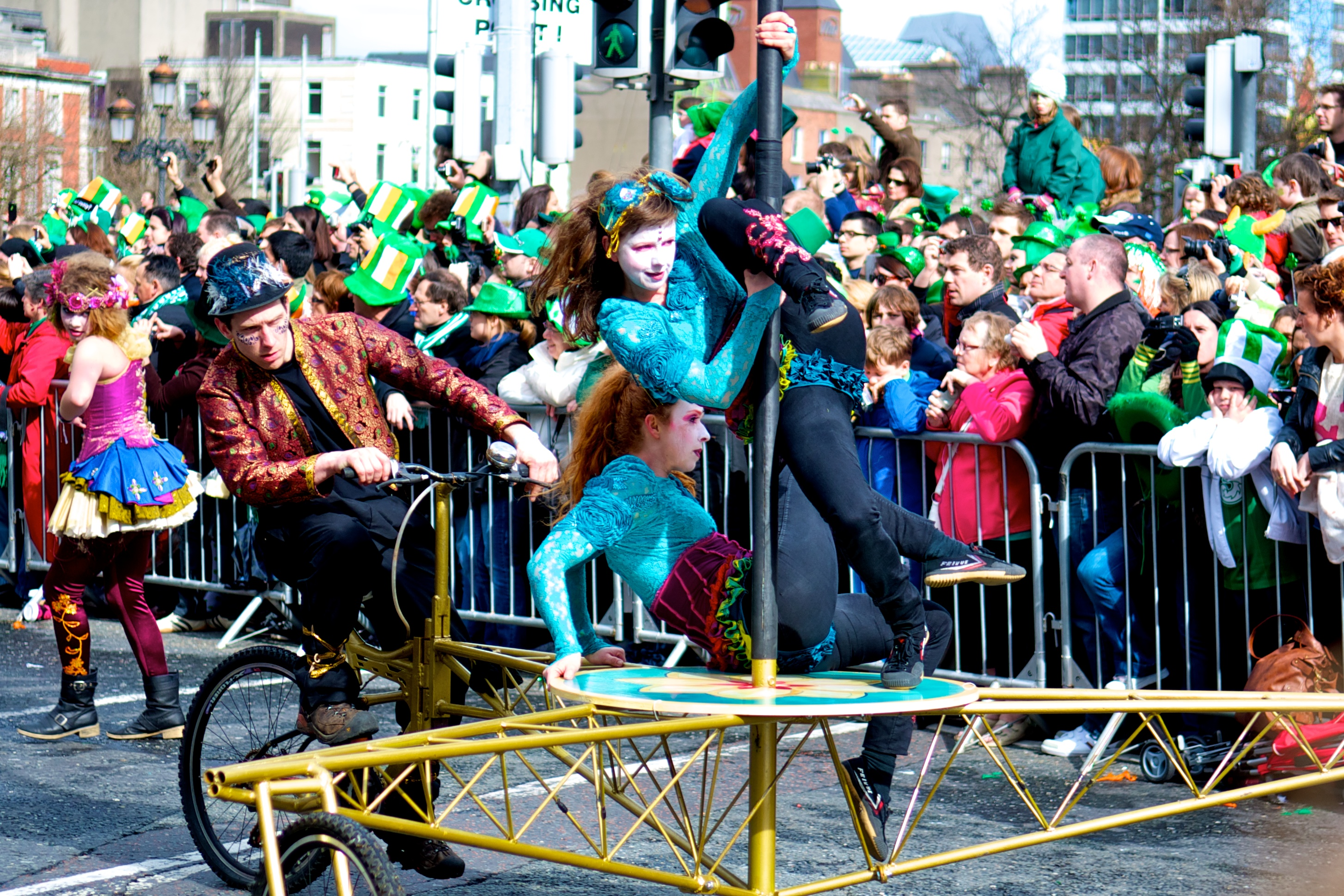 St. Patrick's Festival, Dublin